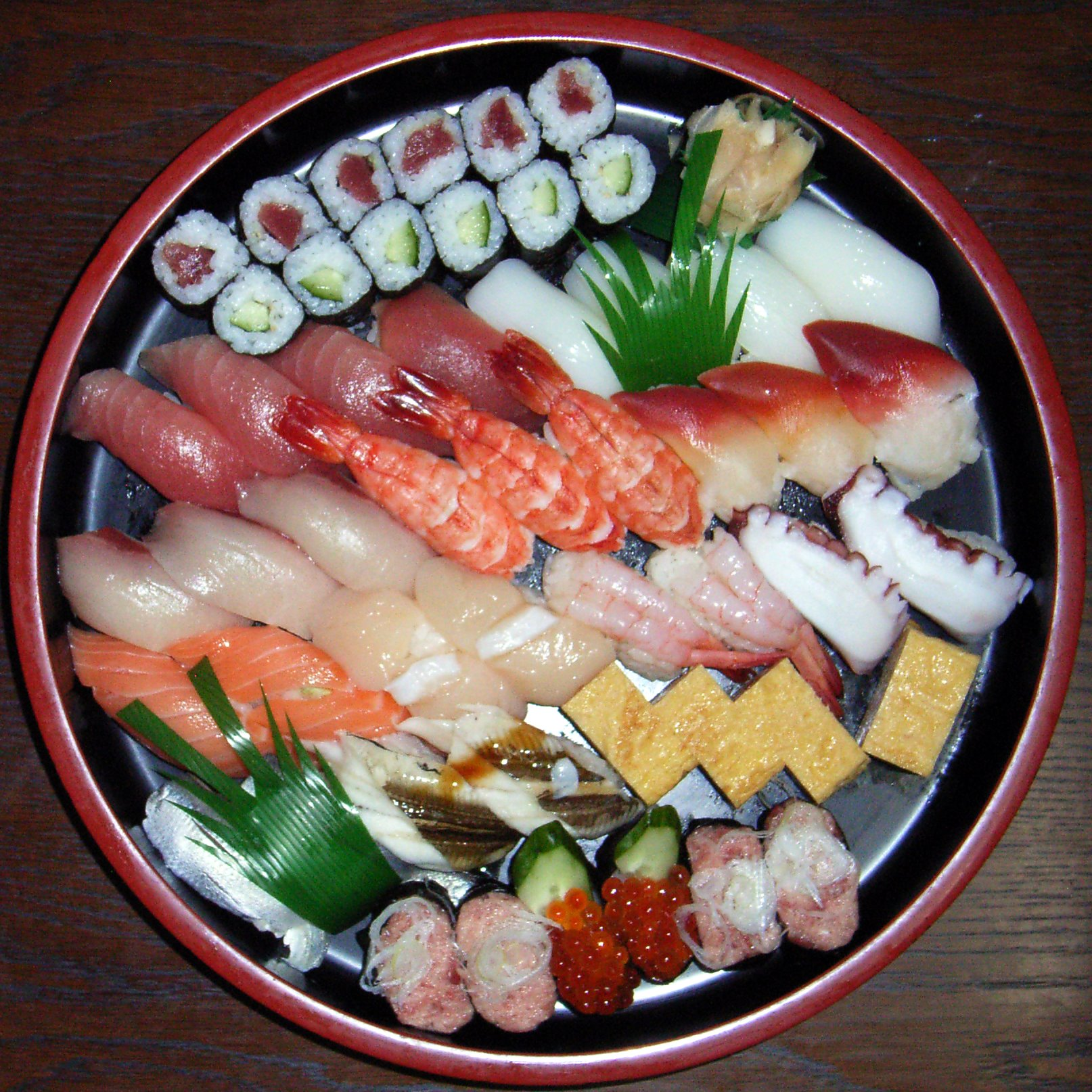 Typical home delivery Sushi platter.500th photo!